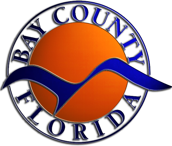 The official seal of Bay County, Florida.